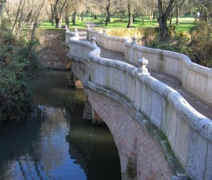 Culebra Bridge (18th century). Casa de Campo, Madrid, Spain